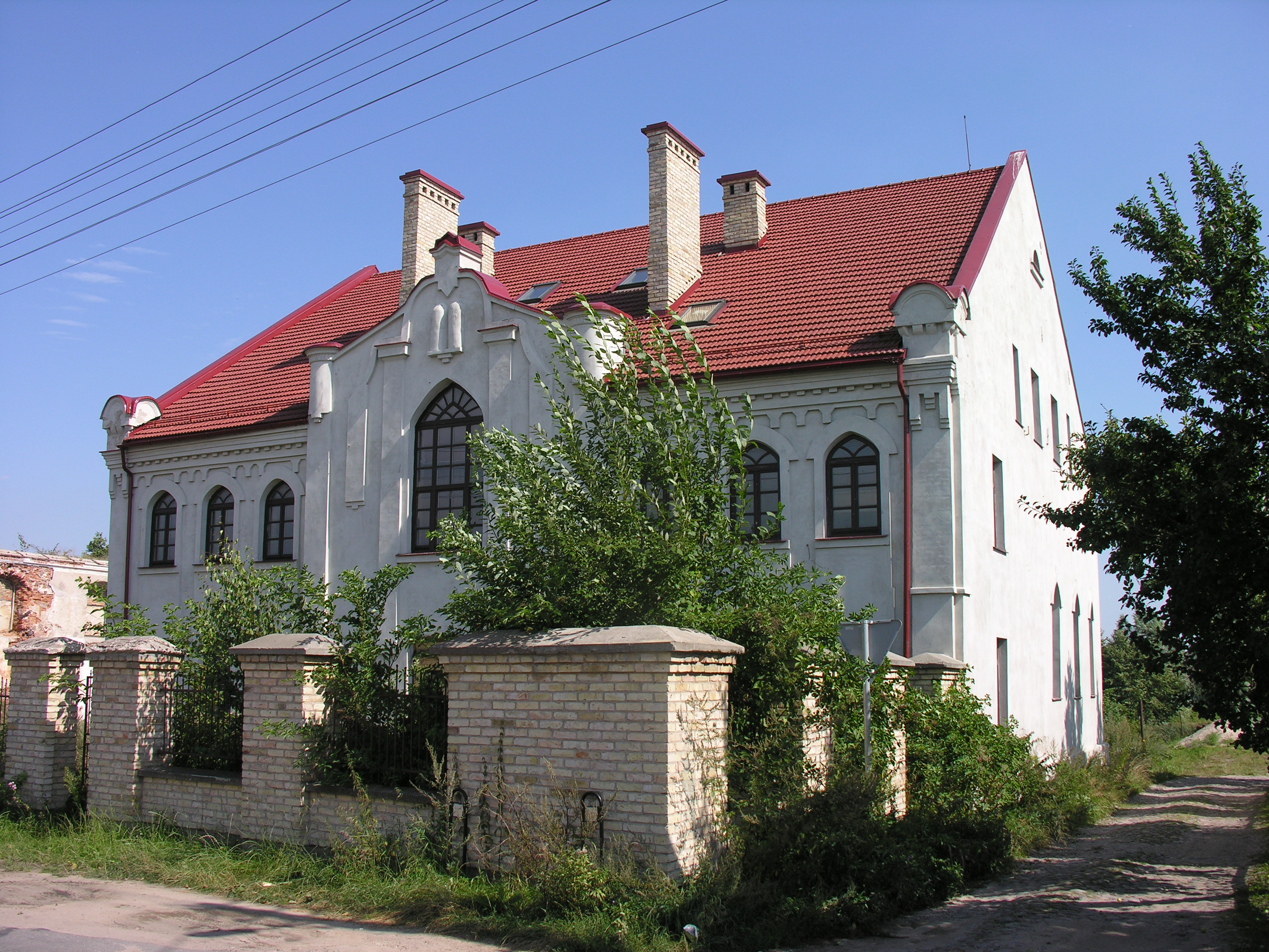 Synagoga Chłodna w Kalwarii